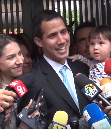 Juan Guaidó with his wife and his daughter after announcing Plan País and his family home was surrounded by Special Forces officials.